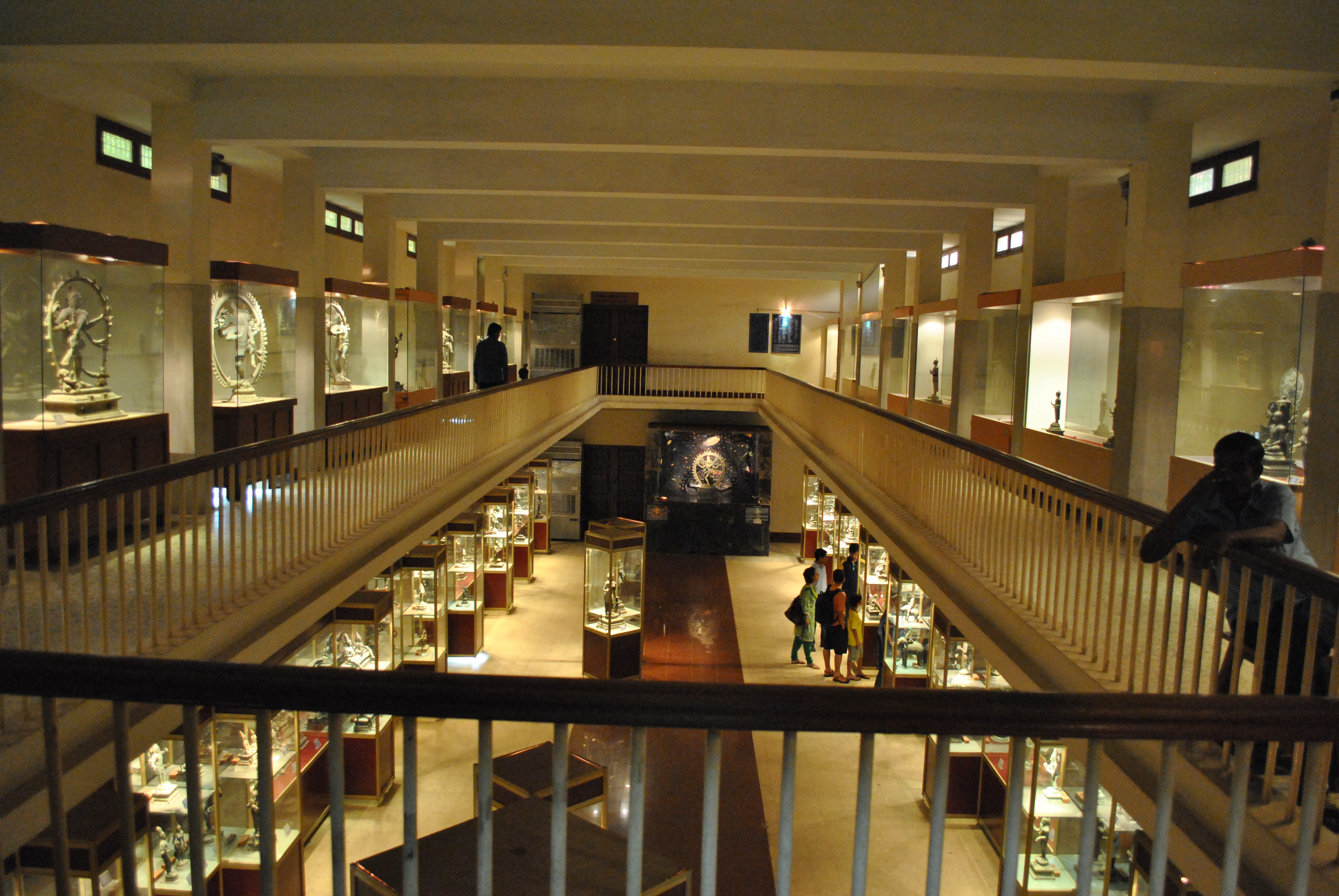 This is my 5th year in Chennai, but first time visit to this museum. I enjoyed the ambiance outside the buildings than inside.